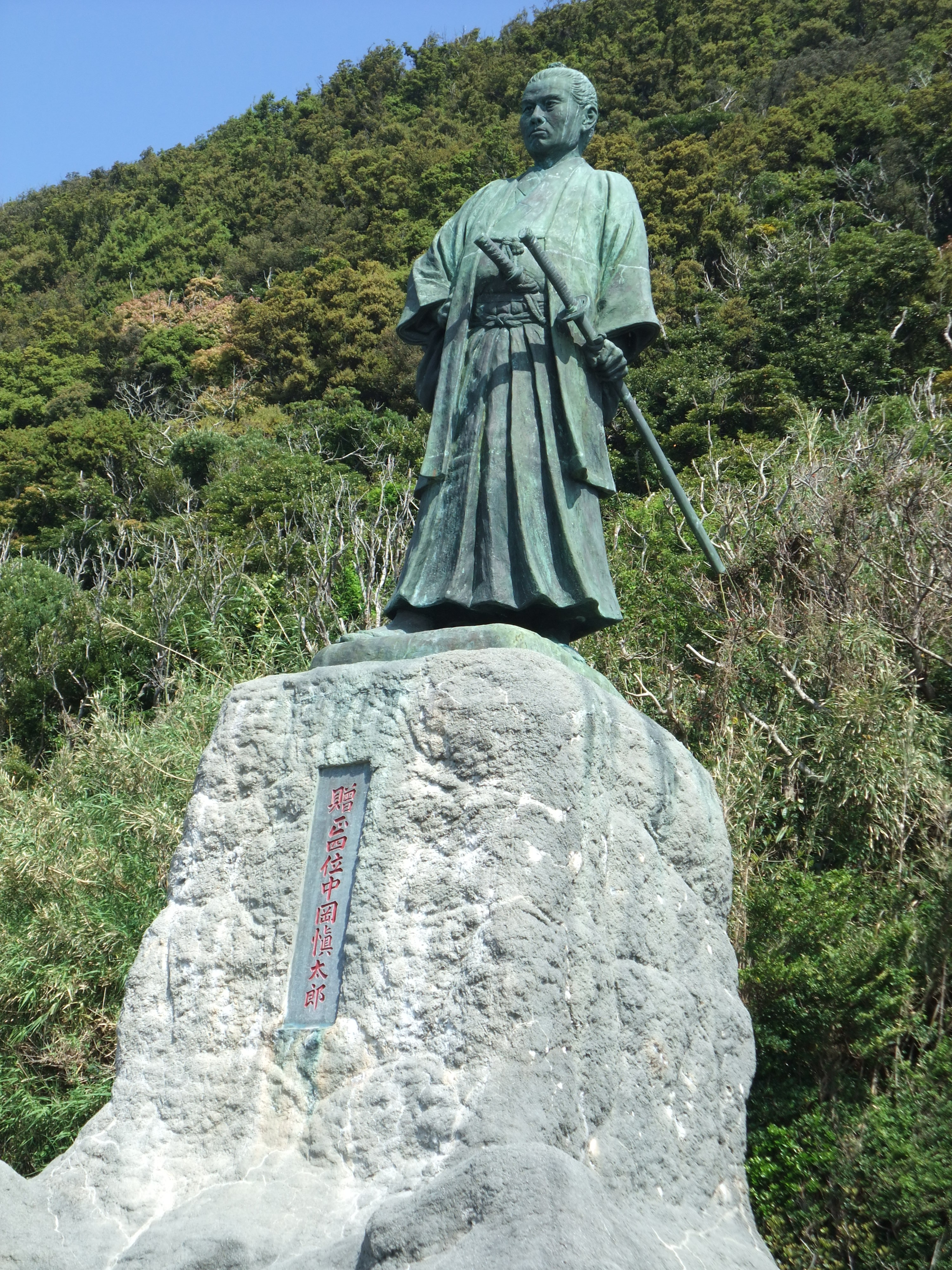 A Statue of Shintarō Nakaoka in Muroto cape